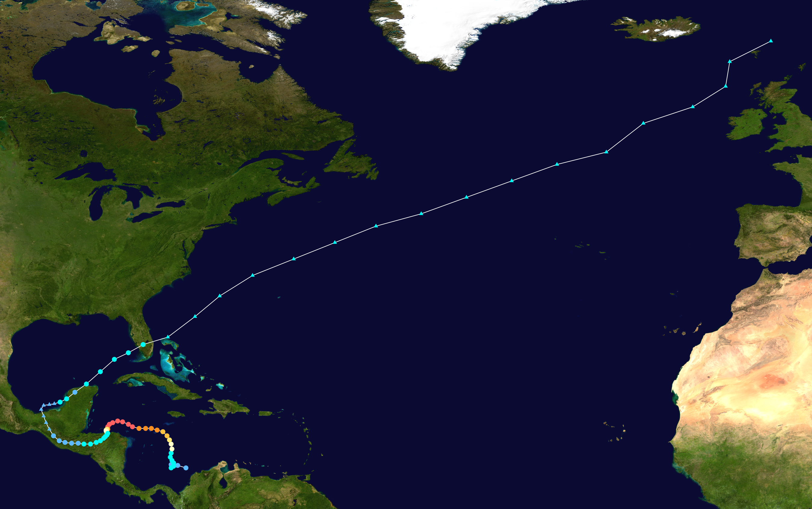 Track map of Hurricane Mitch of the 1998 Atlantic hurricane season. The points show the location of the storm at 6-hour intervals. The colour represents the storm's maximum sustained wind speeds as classified in the Saffir–Simpson scale (see below), and the shape of the data points represent the nature of the storm, according to the legend below. Saffir–Simpson scale Tropical depression≤38 mph≤62 km/h Category 3111–129 mph178–208 km/h Tropical storm39–73 mph63–118 km/h Category 4130–156 mph209–251 km/h Category 174–95 mph119–153 km/h Category 5≥157 mph≥252 km/h Category 296–110 mph154–177 km/h Unknown Storm type Tropical cyclone Subtropical cyclone Extratropical cyclone / Remnant low / Tropical disturbance / Monsoon depression